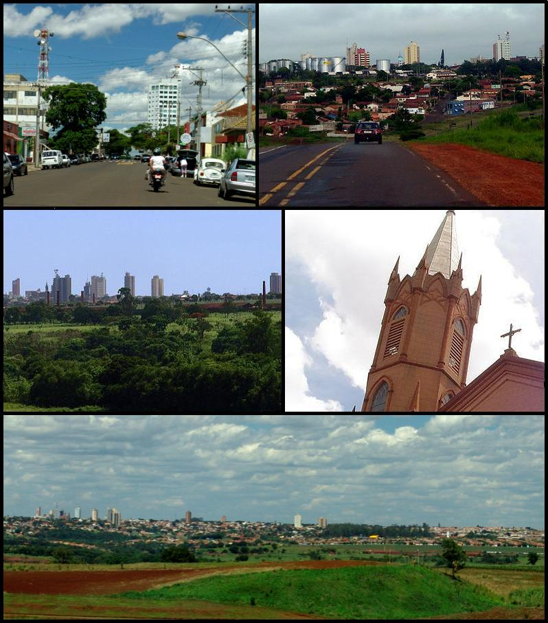 Ourinhos city, São Paulo, Brazil.